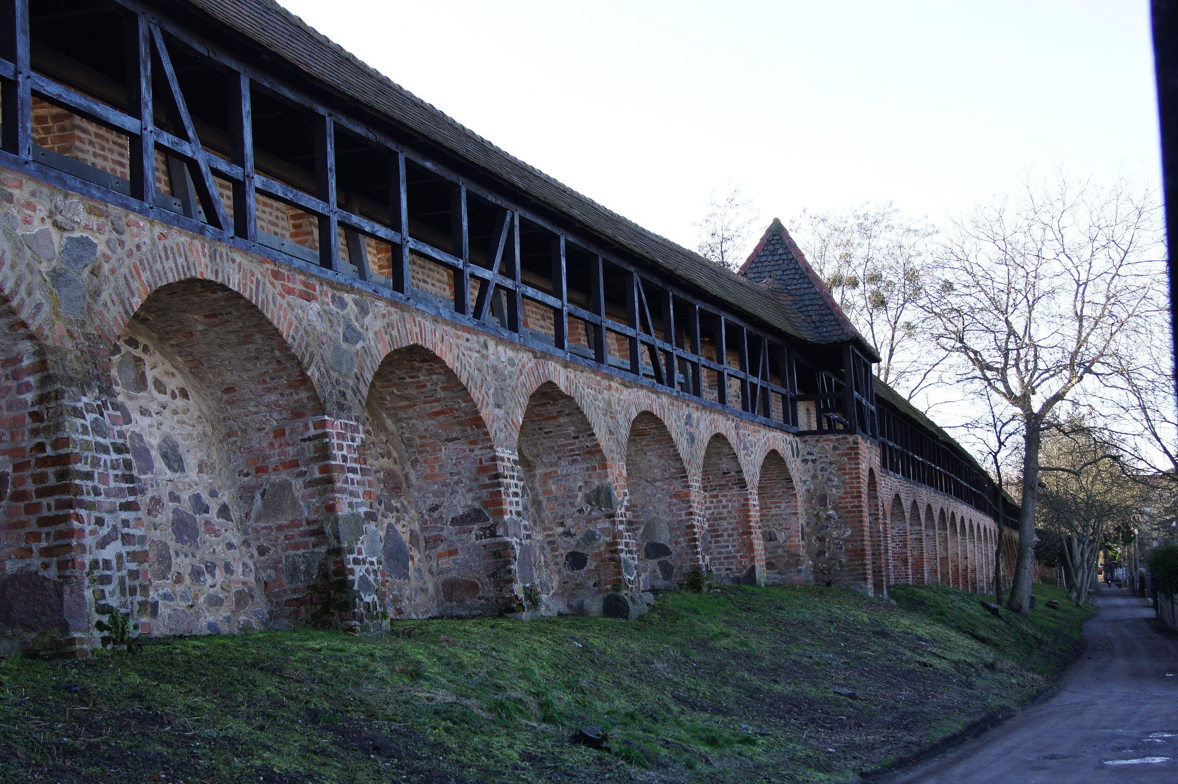 City wall in Zerbst/Anhalt, Saxony-Anhalt, Germany